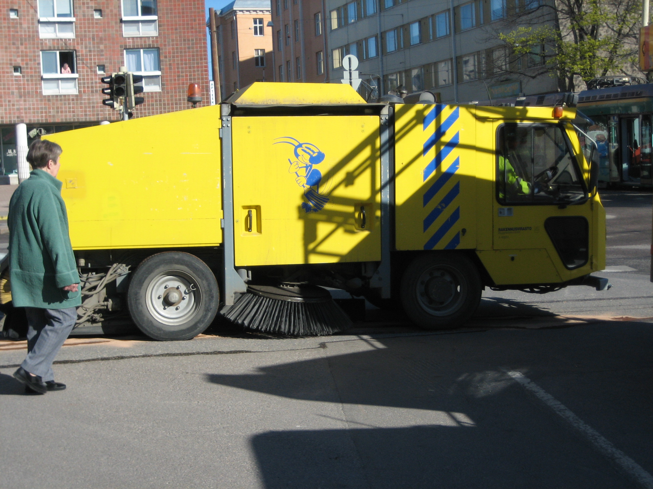 A sweeping machine cleaning the road after a tram accident